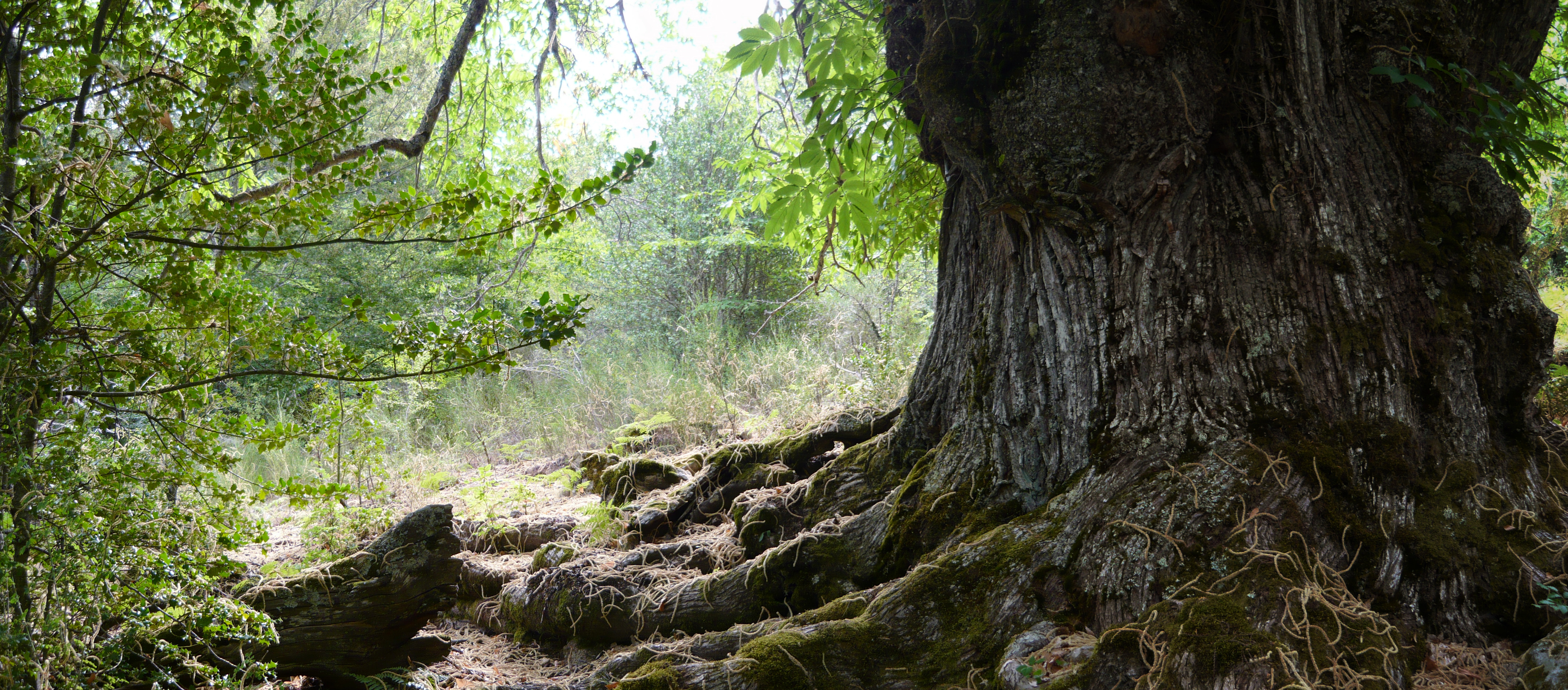 Chestnut above Zicavu (Corsica)